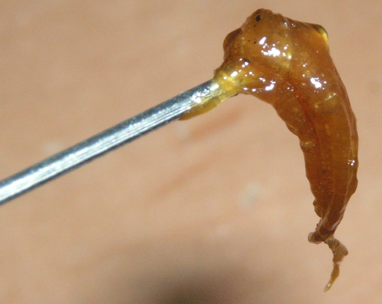 Some honey oil on the tip of a paper clip